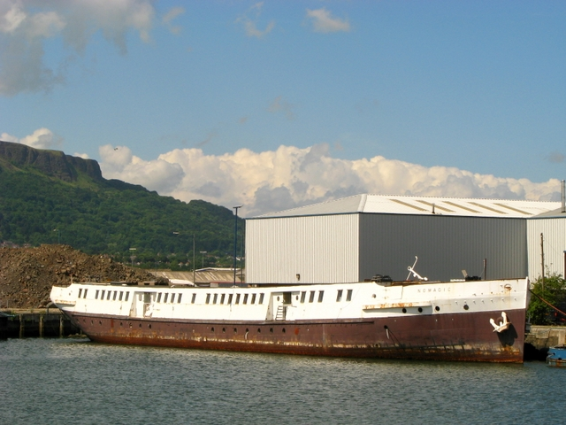 'SS Nomadic' at Barnett Dock, Belfast. See also 599161 - here the 'Nomadic' has been relocated to Barnett Dock as the restoration process continues. When this is completed the ship will be moved to the Hamilton Graving Dock in the city as a showpiece visitor attraction of the emerging 'Titanic Quarter'.